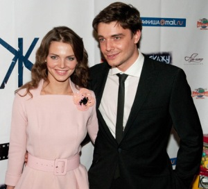 Russian actors Elizaveta Boyarskaya and Maxim Matveev, November 16, 2010 in Moscow